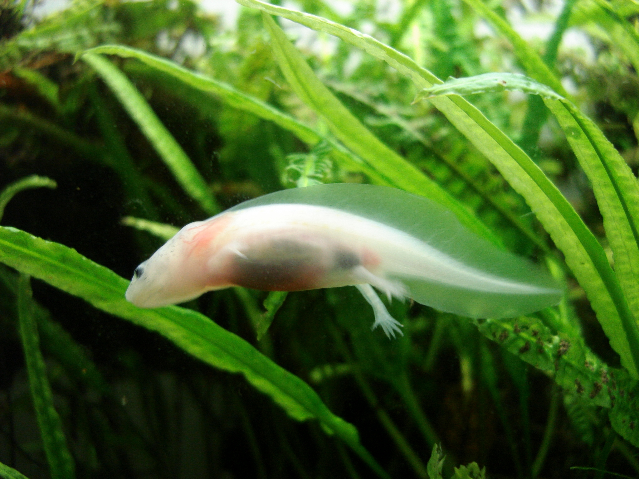 white axolotl (ambystoma mexicanum) - captive breeding white morphe